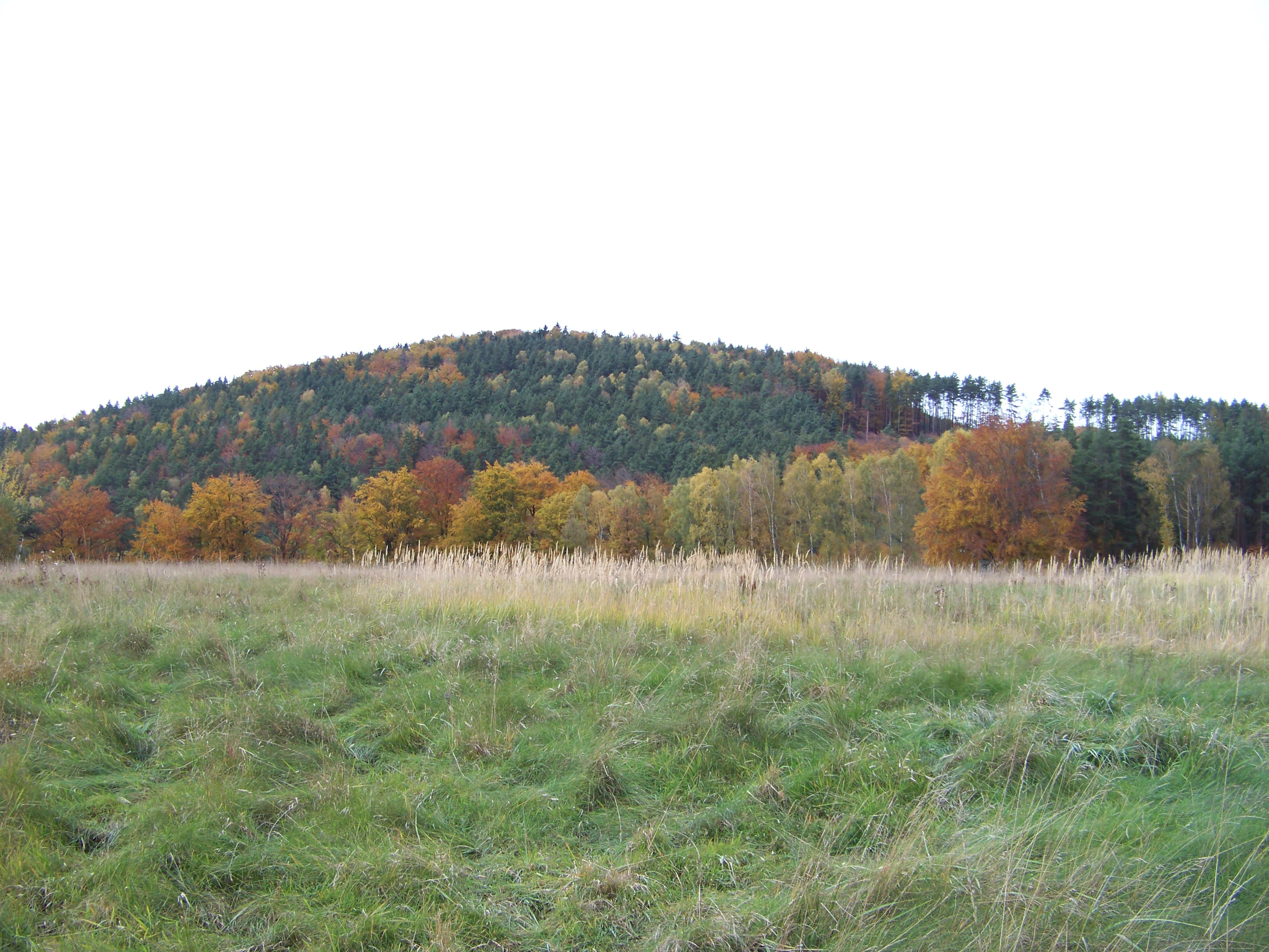 Uhelný vrch. Mělník District, Central Bohemian Region, the Czech Republic.